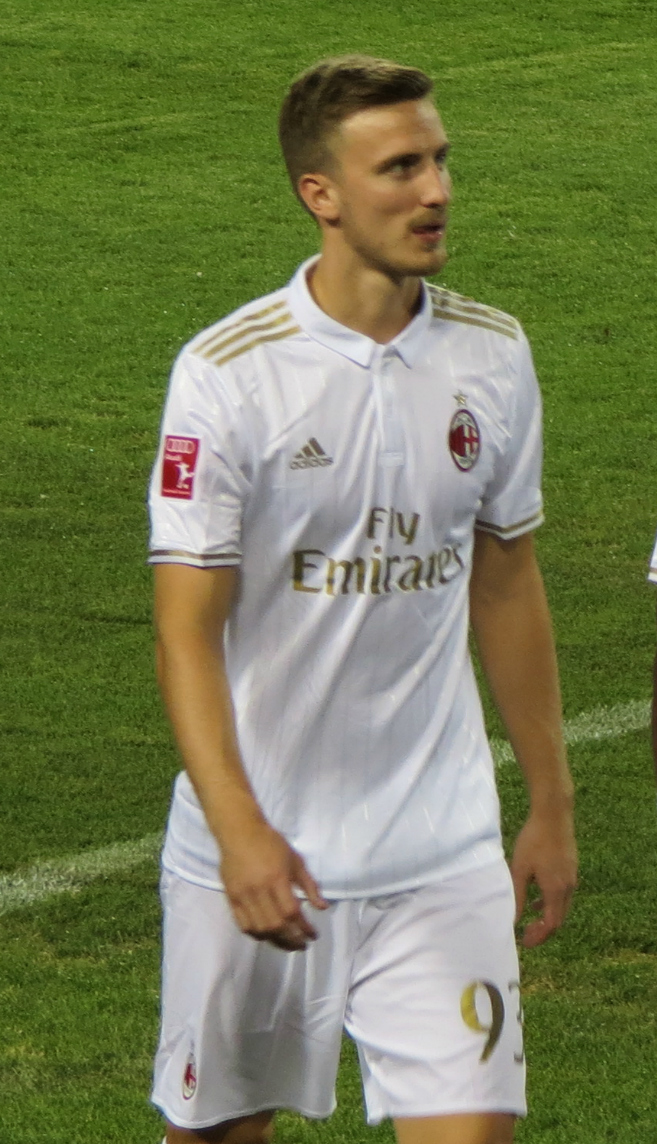 Rodrigo Ely and Jherson Vergara, 2016 International Champions Cup, Bayern v AC Milan